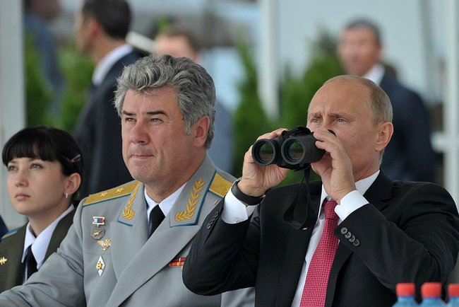 Celebration of the 100th anniversary of Russian Air Force.